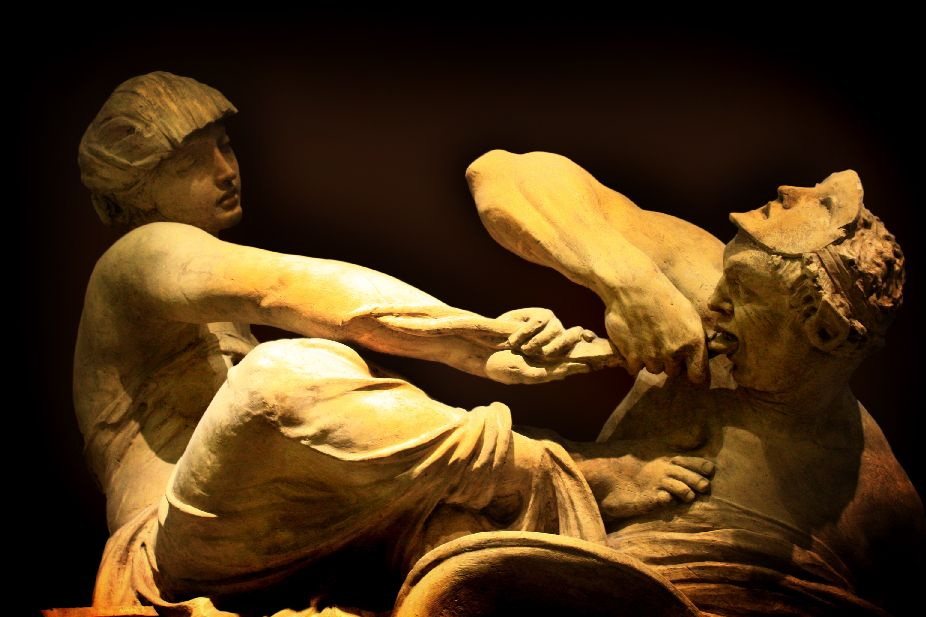 Sculpture - Truth and Falsehood 1857-66 Alfred Stevens (1817-75) London Plaster After a long selection process, the little-known sculptor Alfred Stevens was awarded the commission to produce a monument to the Duke of Wellington. He had already produced a reduced version of his intended monument as his competition model in 1857. This model is also in the Museum's collections (Museum no. 44-1878). This group and its companion depicting Valour and Cowardice (Museum no. 321B-1878) are full-size models for the bronze groups featured on the Wellington monument in St Paul's Cathedral. They were not completed by Stevens until 1866. In this work Truth tears out the double tongue of Falsehood and pushes aside the mask concealing his grotesque features. His serpent-tails are exposed beneath the drapery. The entire monument comprised a triumphal arch with the bier and recumbent effigy of Wellington. The colossal figures of Truth and Falsehood and Valour and Cowardice were placed at either side. The monument was not completed until 1912, almost 40 years after the death of the sculptor. Collection ID: 321A-1878 This photo was taken as part of Britain Loves Wikipedia in February 2010 by Iza Bella.